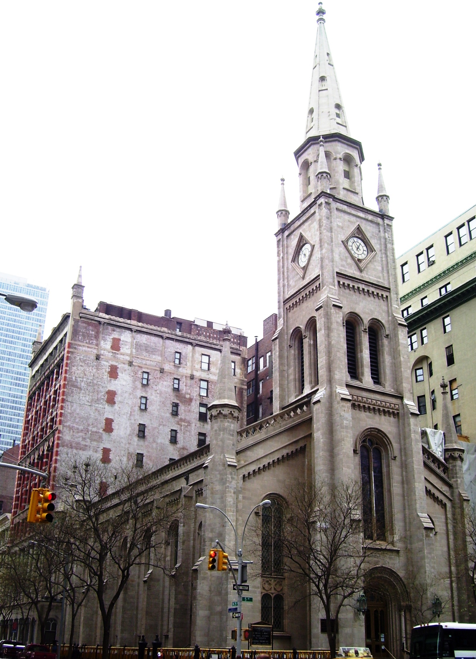 The Marble Collegiate Church at 272 Fifth Avenue at the corner of West 29th Street in the NoMad neighborhood of Manhattan, New York City was built in 1851-54 and was designed by Samuel A. Warner in Romanesque Revival style with Gothic trim. The facade is covered in Tuckahoe marble. (Source: Guide to NYC Landmarks (4th ed.)